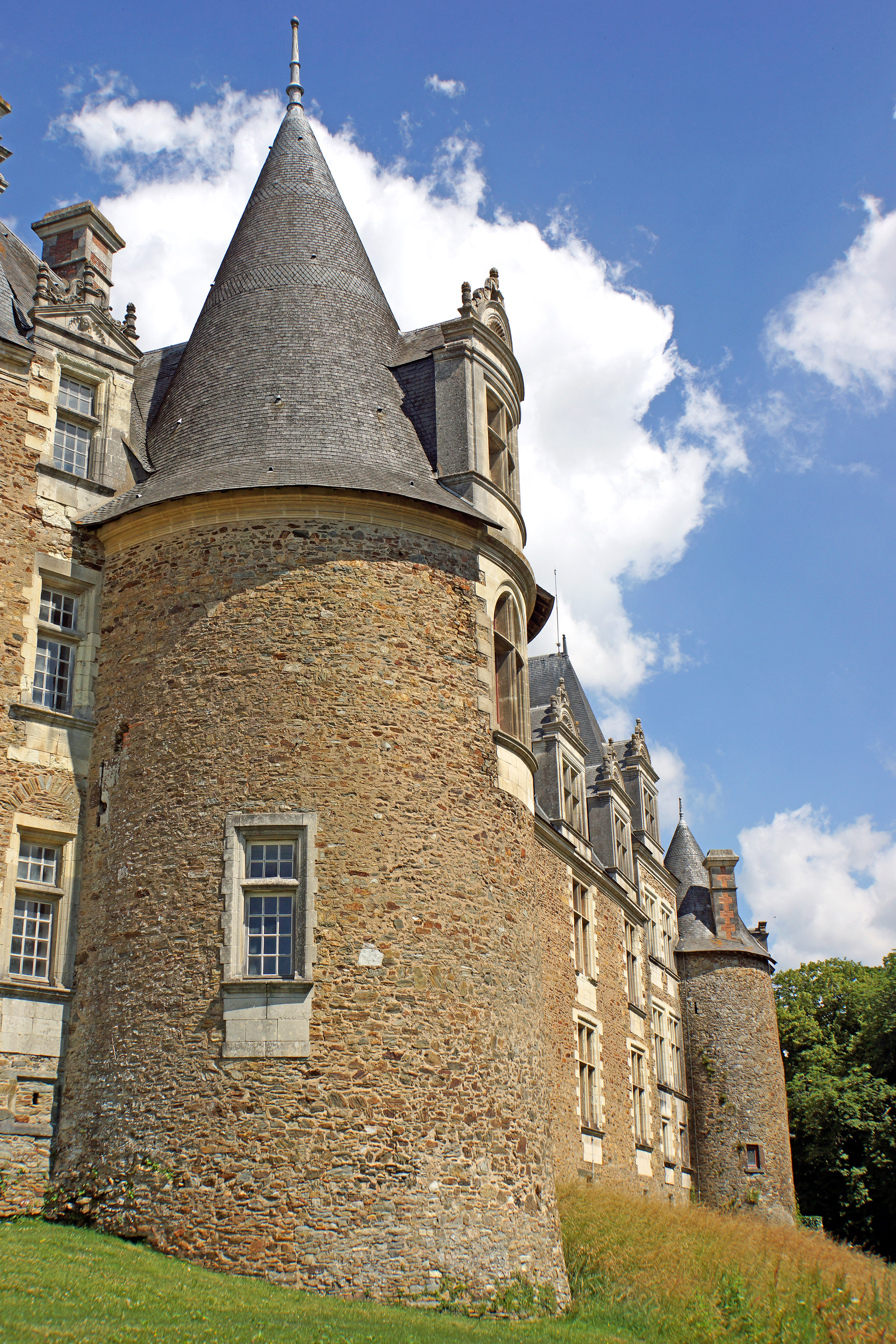 PLEASE, NO invitations or self promotions, THEY WILL BE DELETED. My photos are FREE to use, just give me credit and it would be nice if you let me know, thanks. The Château de Châteaubriant is French medieval and Renaissance architecture. It combines an upper and a lower bailey encircled by walls and towers mostly dating from the 13th century. In the upper bailey are located the 12th century chapel and the 14th century keep and two halls.